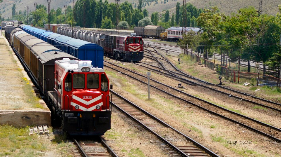 Trains at Ulukisla.